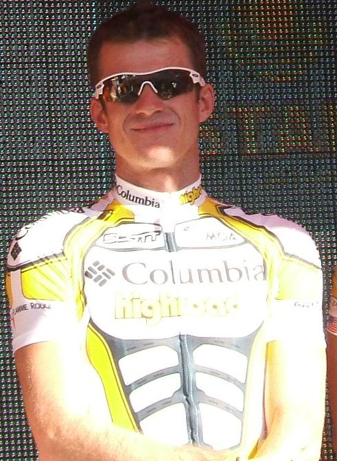 Named cyclist at the en:2009 Tour Down Under team presentation